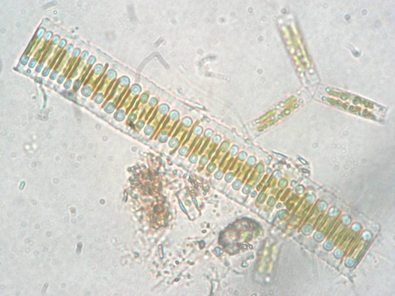 This work is free and may be used by anyone for any purpose. If you wish to use this content, you do not need to request permission as long as you follow any licensing requirements mentioned on this page.